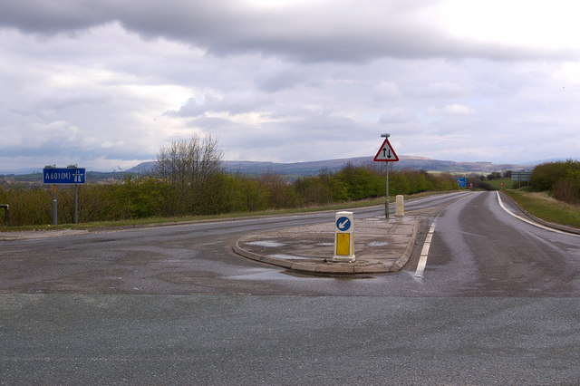 The start of the A601(M) The A601(M) has two parts - the part west of Junction 35 with the M6 is a dual carriageway link to the A6, and once formed the northern end of the M6 until the main motorway was extended northwards. But the eastern part was added in 1987 to enable lorries from the quarries to the south to join the M6 without having to go through Carnforth. Its potential usage didn't justify a full blown dual carriageway, but because it gave nowhere to go for non-motorway traffic, it had to be designated a motorway. The result: a stretch of single carriageway motorway, with two way traffic, which ends at a T junction with a B road (the B6254), as shown here! Note the motorway and two way traffic signs. Not as impressive in length as what was the A6144(M) in Greater Manchester (SJ7793), which is also single carriageway but alas is now no longer a motorway, despite what the map for the square still shows (and unfortunately there are no photos of it on Geograph), but the A601(M) is still a worthy feature of the UK road network. In particular, being a motorway without speed limit indications, it presumably has a 70mph speed limit - one of the few places in the country where one can legally travel at 70mph on a non-dual carriageway, not that the stretch of road is really long enough to allow it!